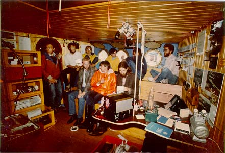 Atoll floating laboratory lecture room photo Uwe Kils